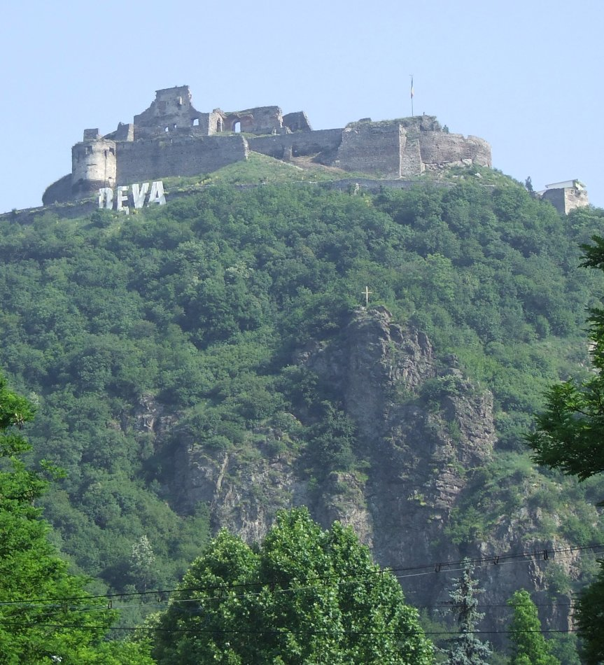 Image of Deva Citadel, Romania